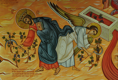 The icon shows Jesus harvesting in the vineyard with an angel. The figure represents the fruitfulness of Christianity